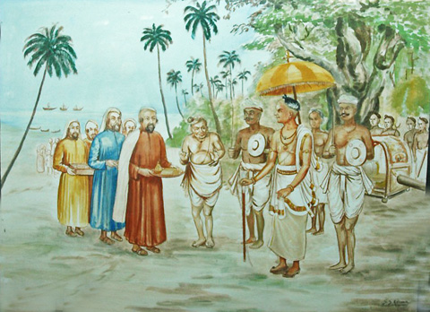 The first Jewish immigrants arriving in Kerala, India.